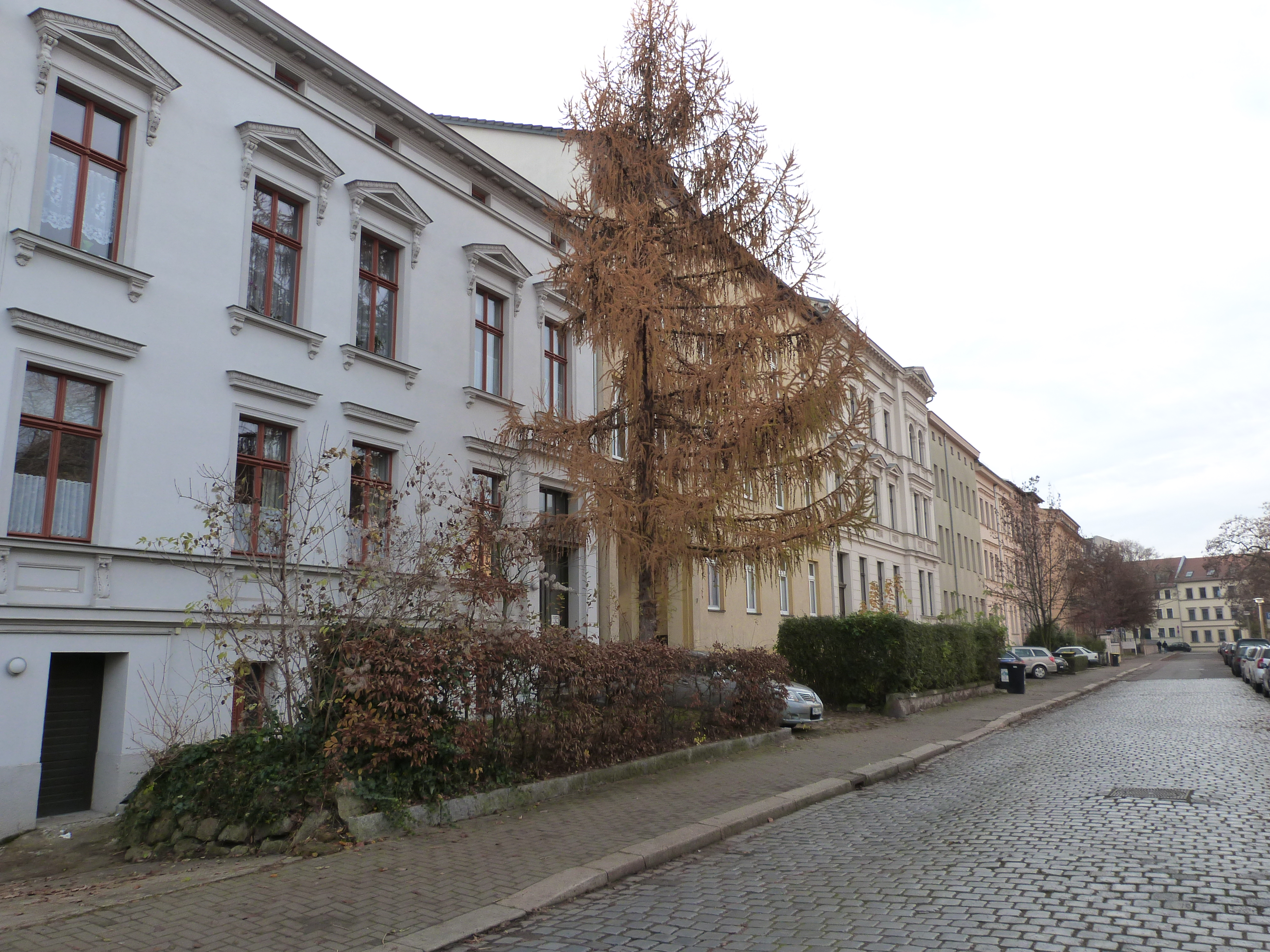 Johann-Andreas-Segner-Strasse in Halle (Saale), view to west